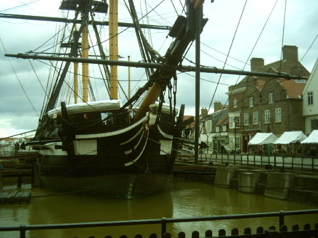 Historical Quays, Hartlepool. Amazing open air museum, Great day out.